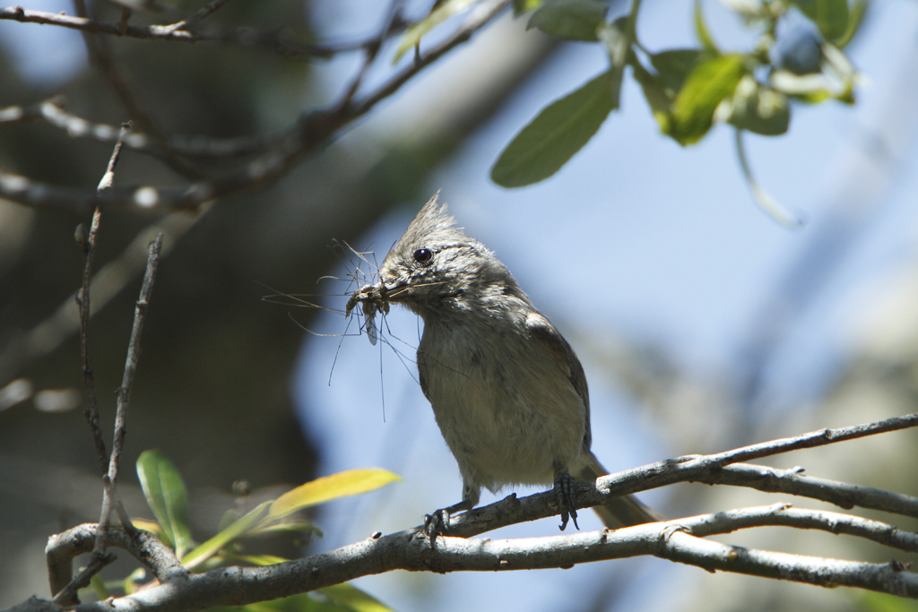 An Oak Titmouse with food for chicks in San Luis Obispo, California, USA.